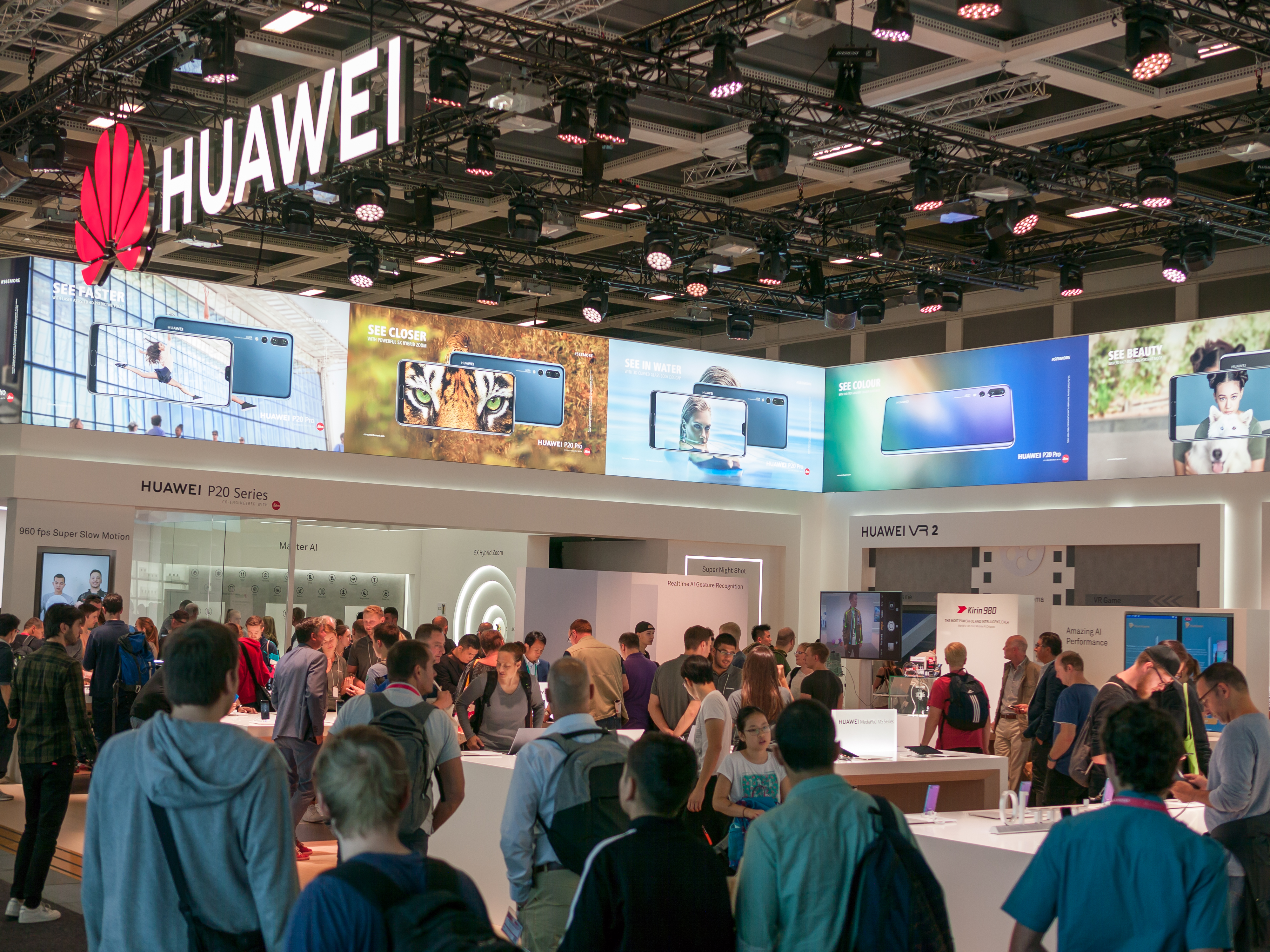 Huawei, Internationale Funkausstellung 2018, Berlin